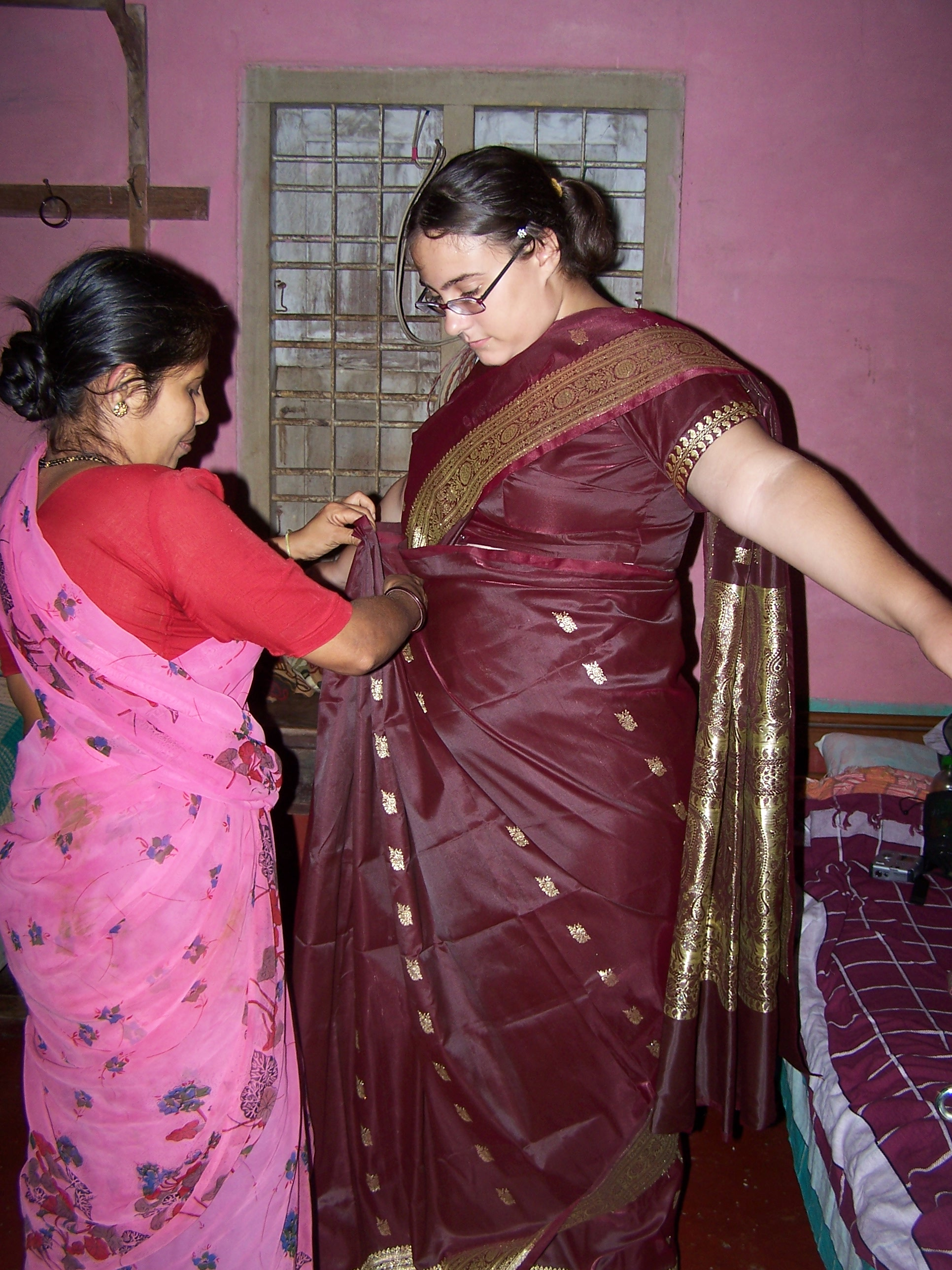 Indian woman in a pink sari helps a European woman put on a red silk sari in preparation for a traditional Indian wedding.